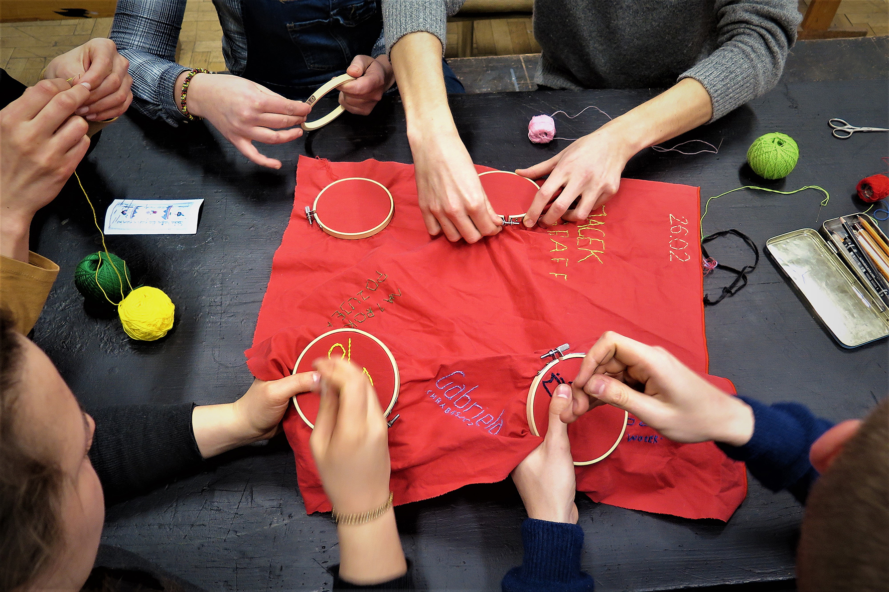 Documentary embroidery workshop with Monika Drożyńska called "Greetings from the future".